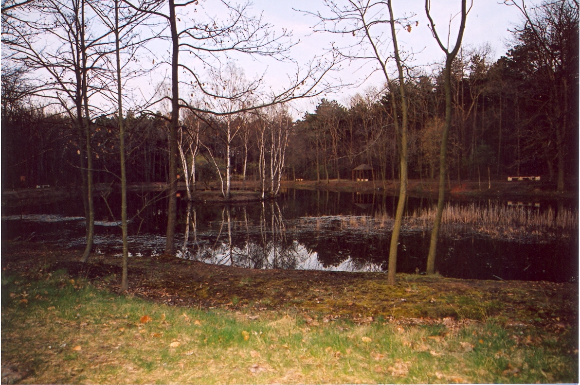 Ressl - Most